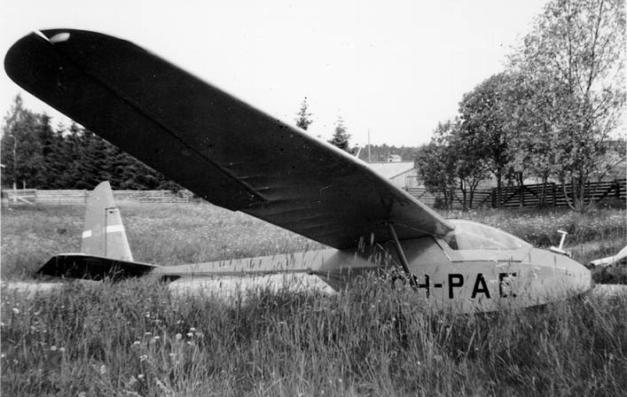 OH-PAC at Jämijärvi airfield in June 1954.